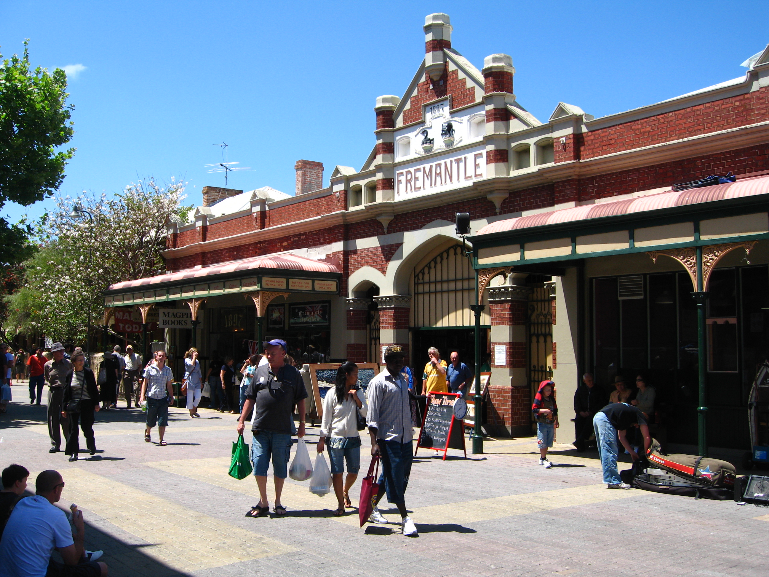 Fremantle Markets, Fremantle, Western Australia.